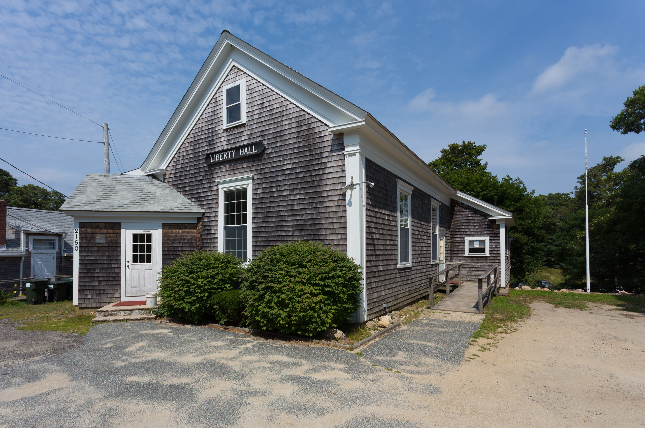 Liberty Hall is a historic building on Main Street in the Marstons Mills village of Barnstable, Massachusetts.